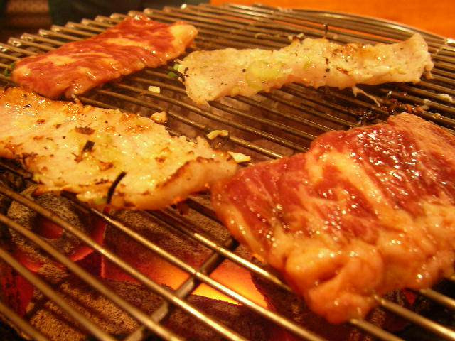 Korean beef barbeque.